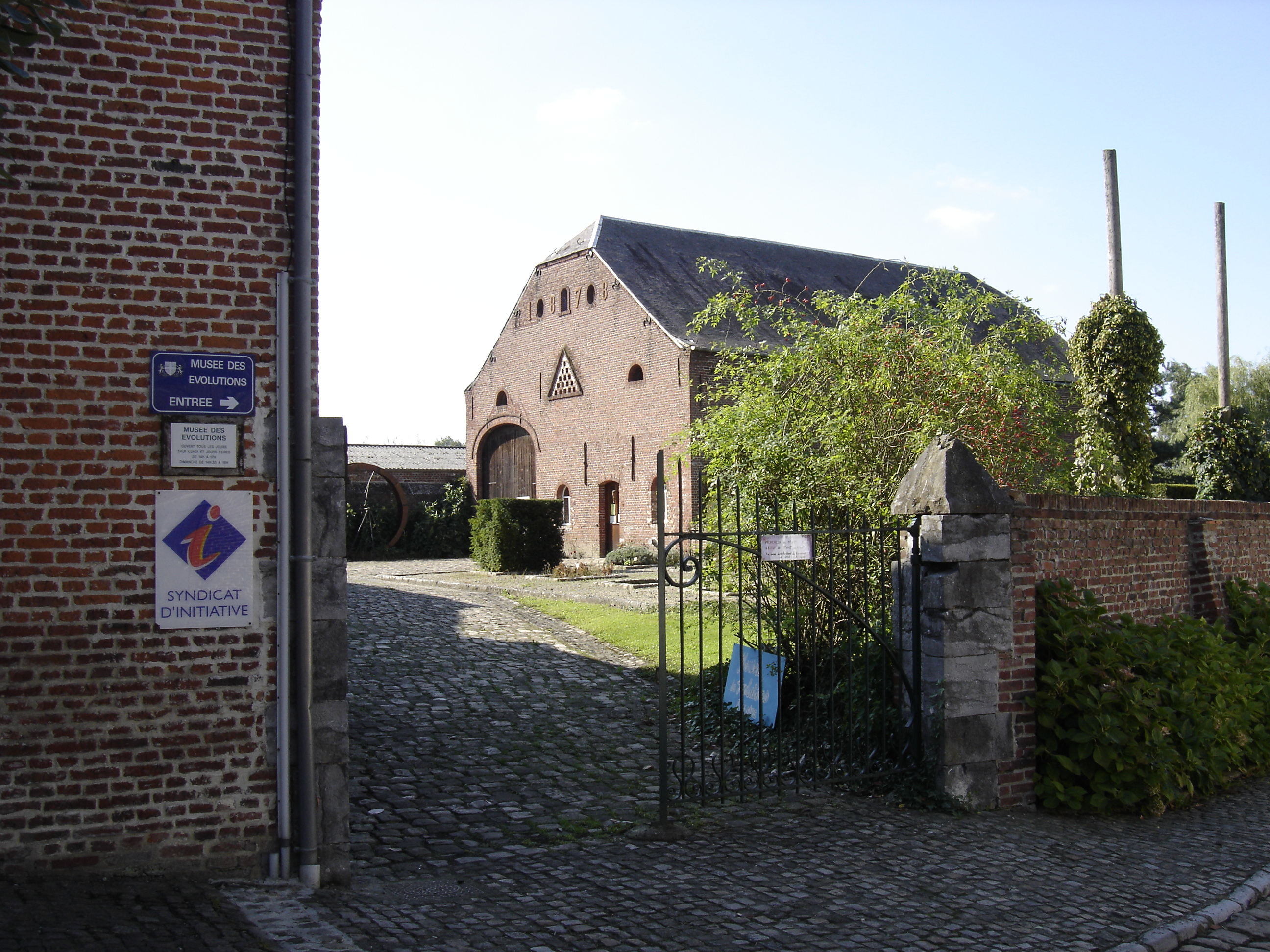 1 Summary Bousies Musée des Evolutions